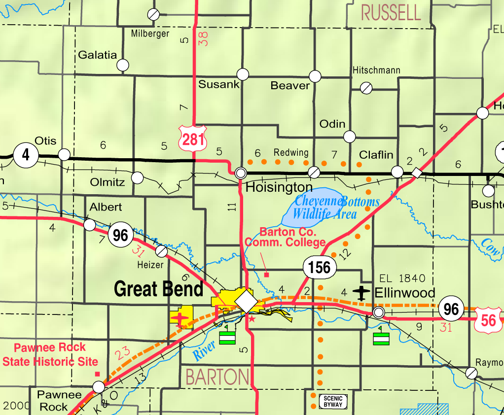 This map of Barton County, Kansas, USA, is copied at a resolution of 300 pixels/inch from the original PDF file.